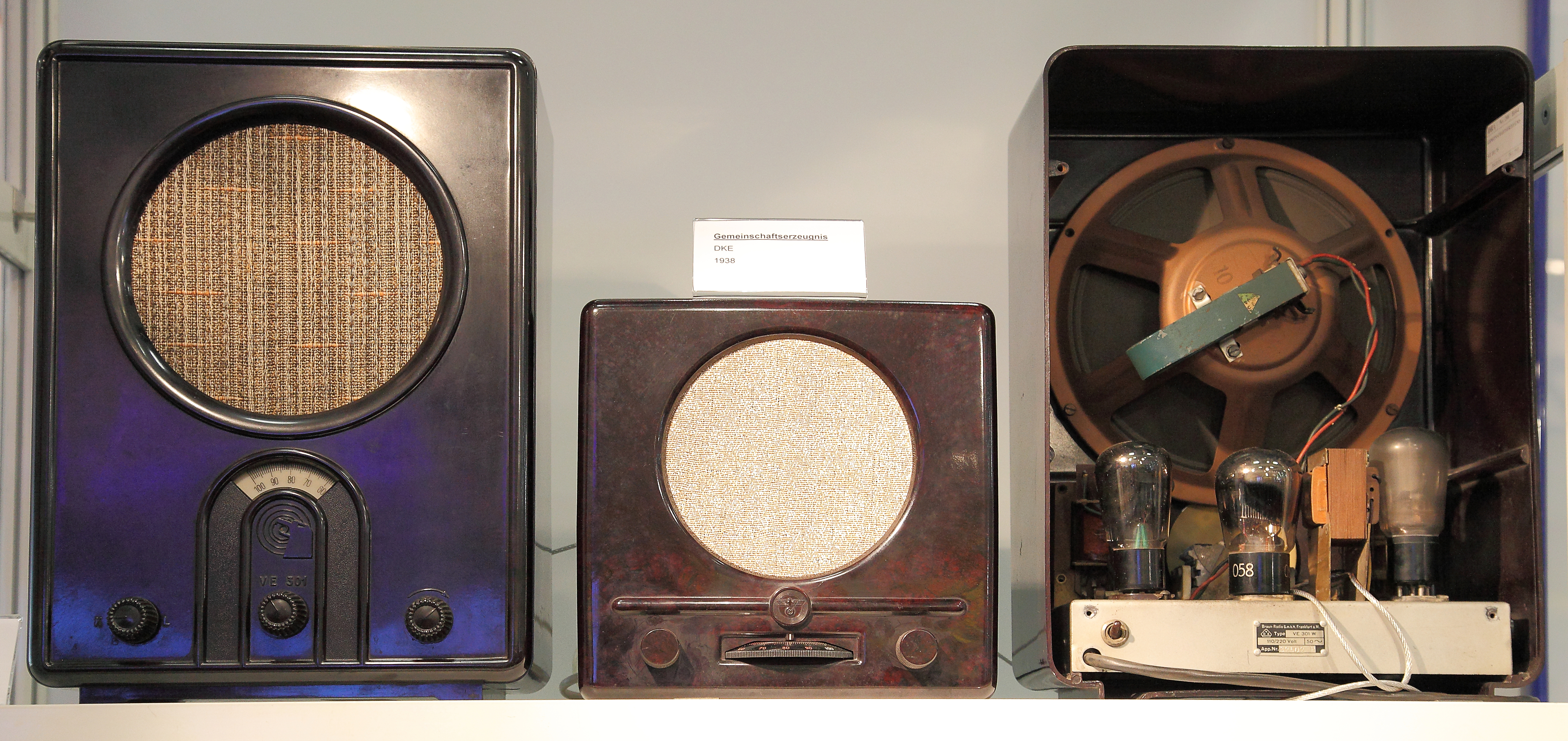 Two standardized German Volksempfänger - simple two-tube (plus rectifier) regenerative TRF designs. The larger, left and right (it's the same standard model) is the 1933-1938 Volksempfänger VE301. One on the right is a Braun product, with a large 24-cm speaker. The smaller set in the middle is the Deutscher Kleinempfänger 1938 (DKE 38). It wasn't marked with a particular brand, being a Gemeinschaftserzeugnisse - cooperative product by unified Austrian contractors (Eumig, Hornyphon, Ingelen, Kapsch, Minerva, Radione). The larger VE301 was also produced through this cartel.